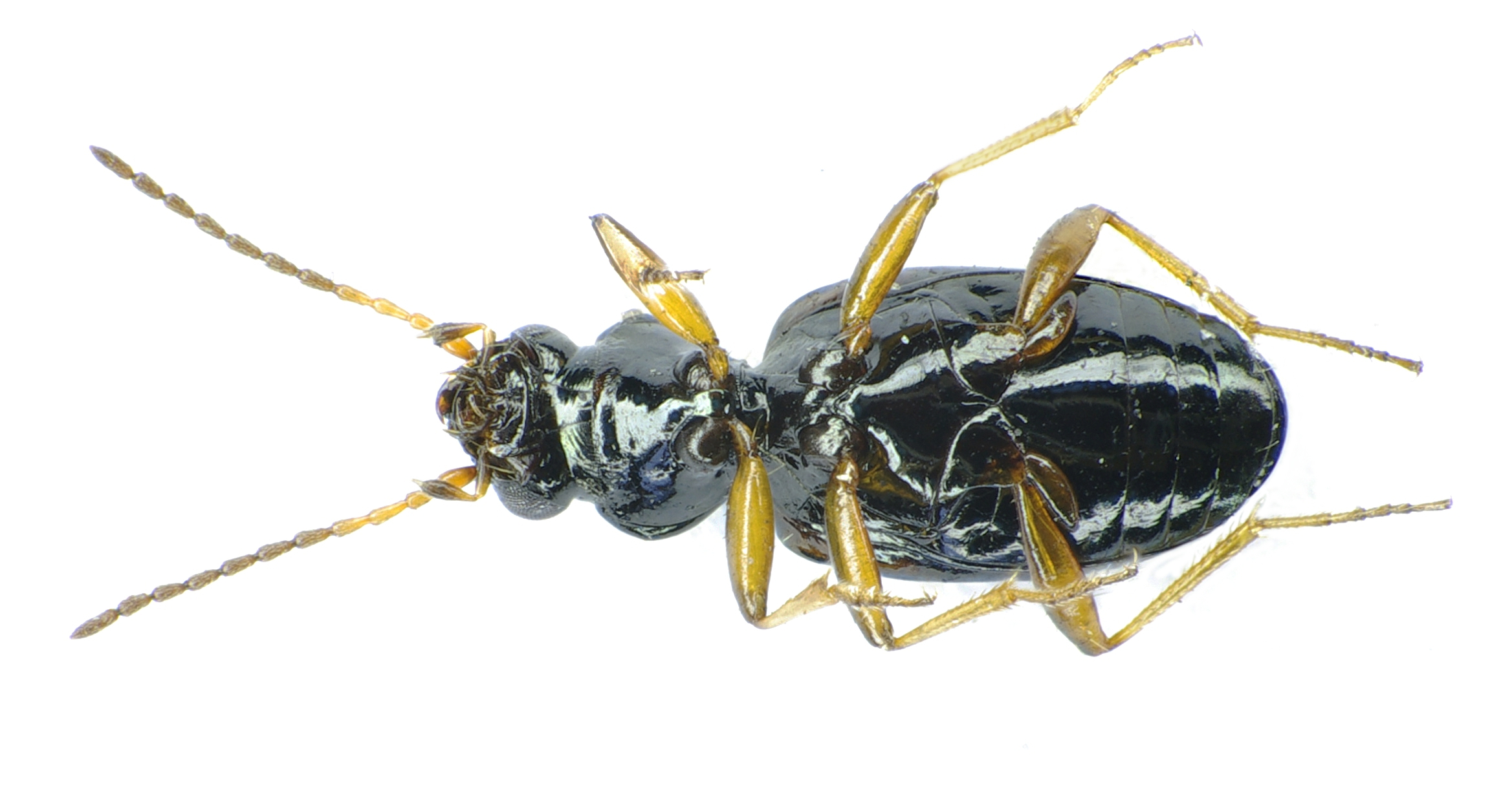 Bembidion quadrimaculatum from Southern Germany, near Tuttlingen, 700m high, at wet piece of rotten wood at 2011-03-09 underside